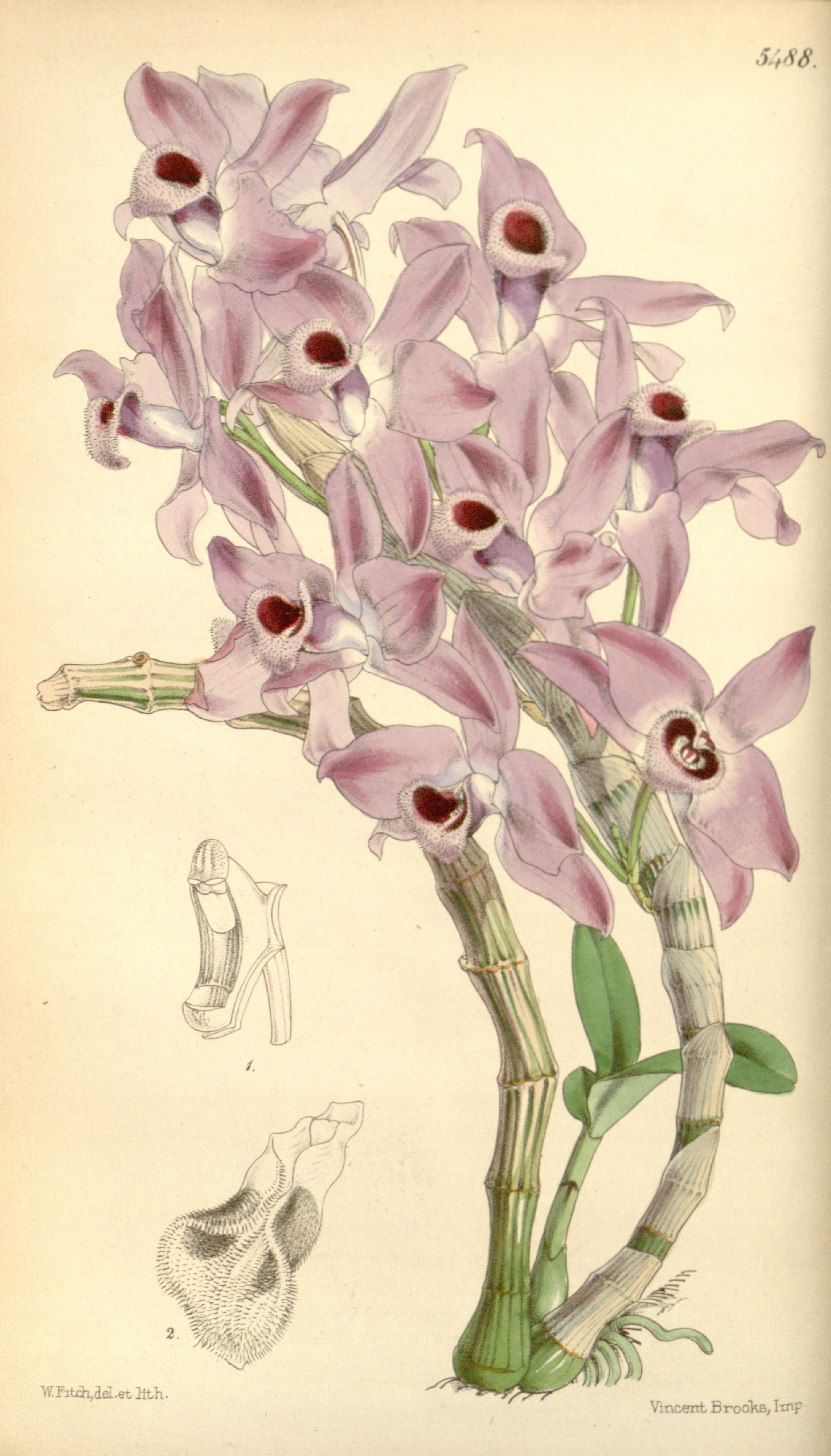 Illustration of Dendrobium parishii